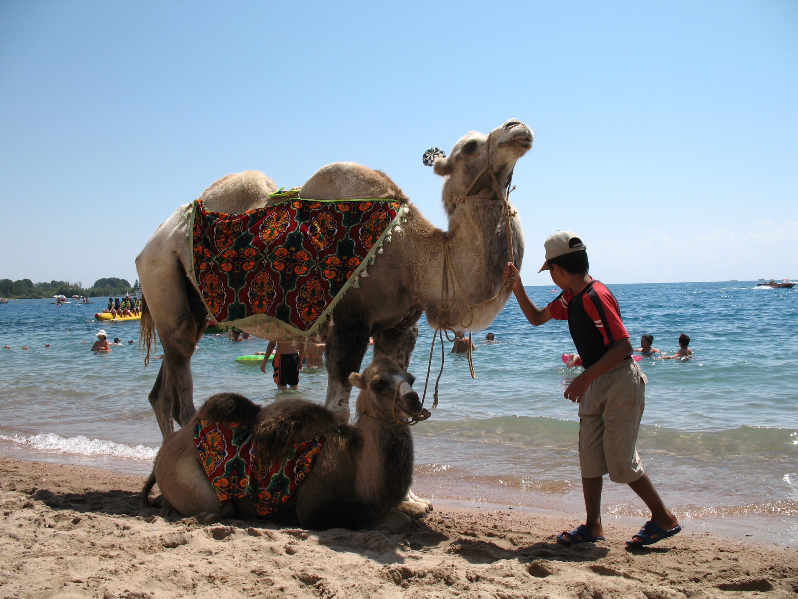 Issyk-Kul. Camel on the beach